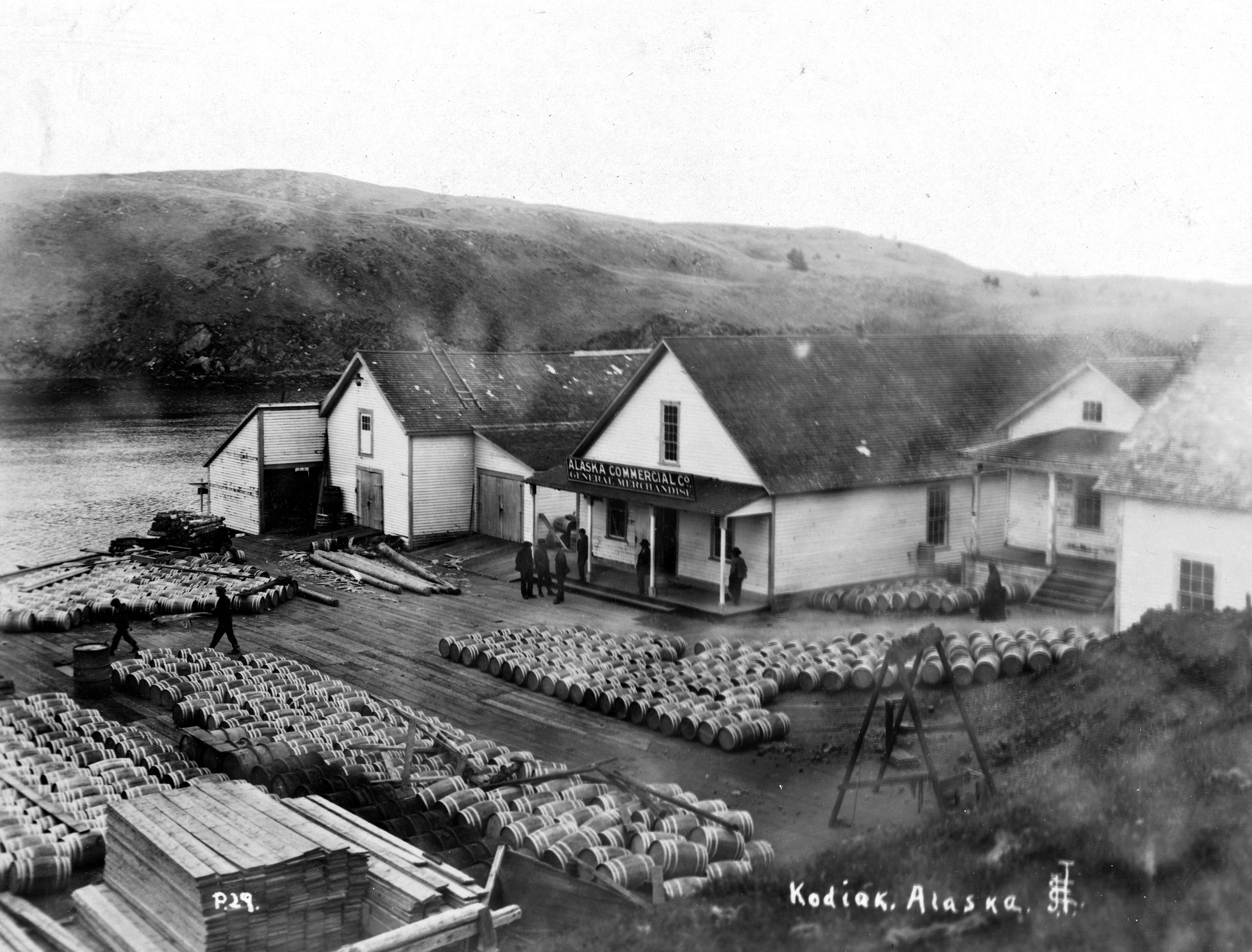 Barreled salmon from Hood Bay, Alaska in front of the Alaska Commercial Company.